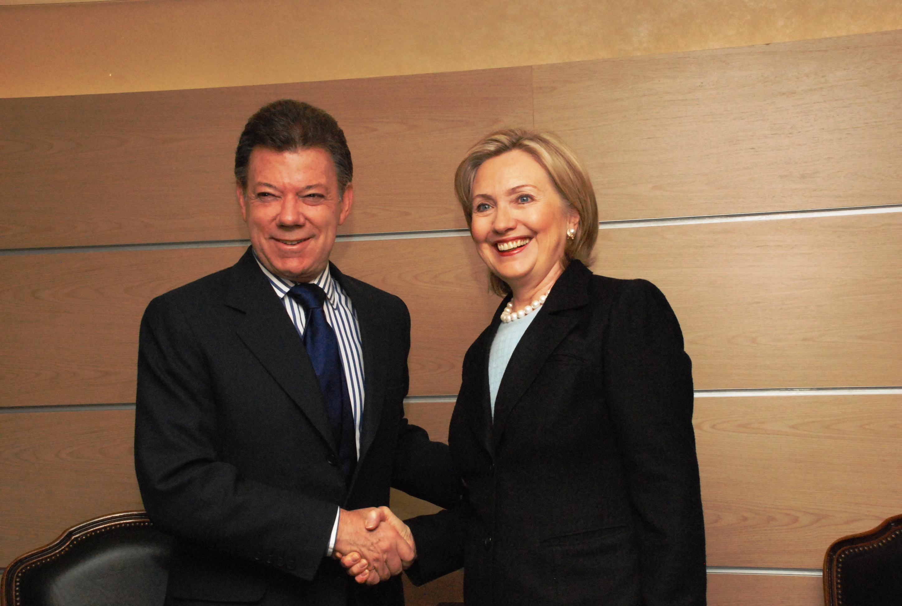 U.S. Secretary of State Hillary Rodham Clinton shakes hands with Colombian Presidential Candidate Juan Manuel Santos to discuss issues of bilateral interest at the Hotel Charleston in Bogotá, Colombia, on June 9, 2010. [State Department photo/ Public Domain]